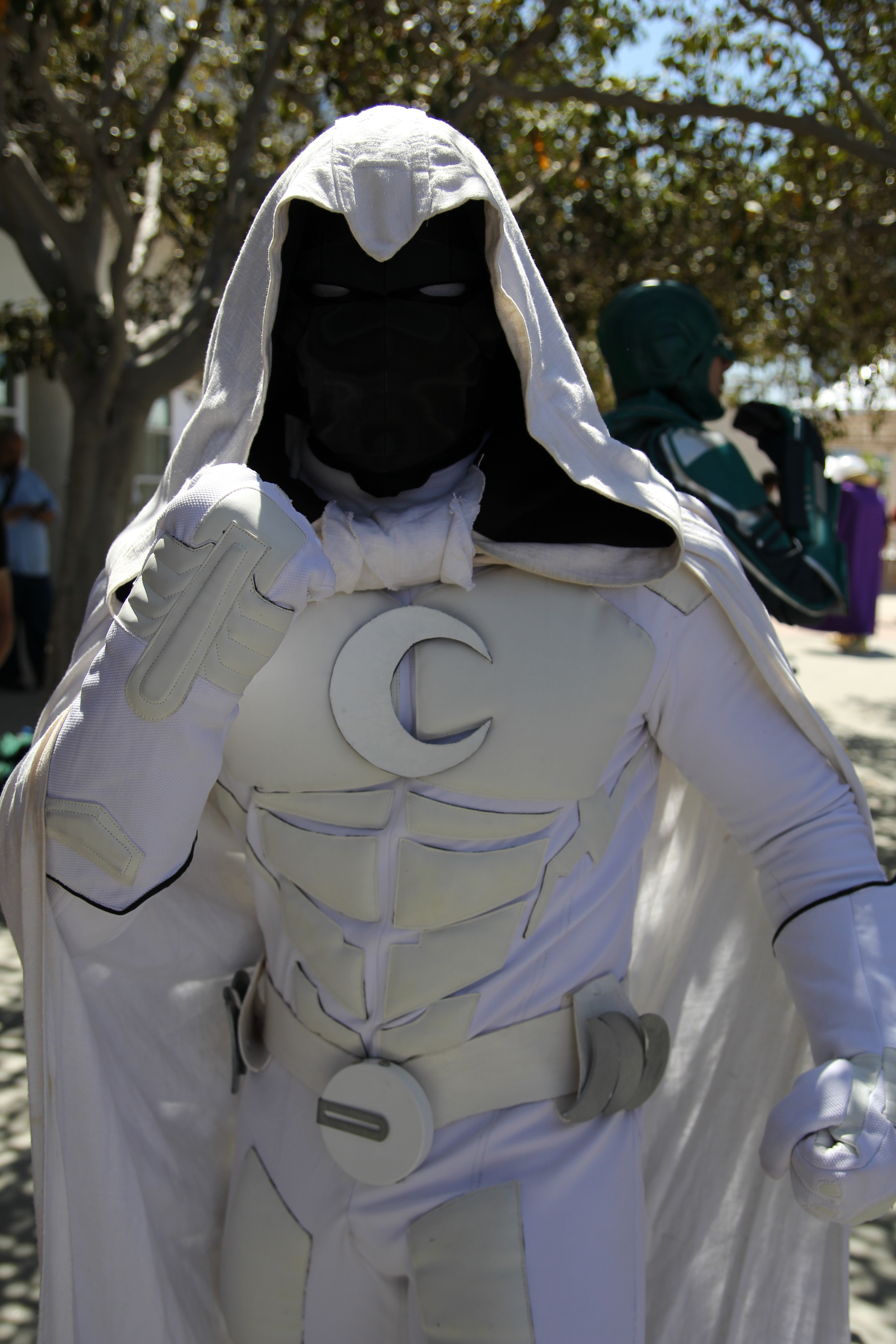 Cosplay of Moon Knight (San Diego Comic-Con 2019).